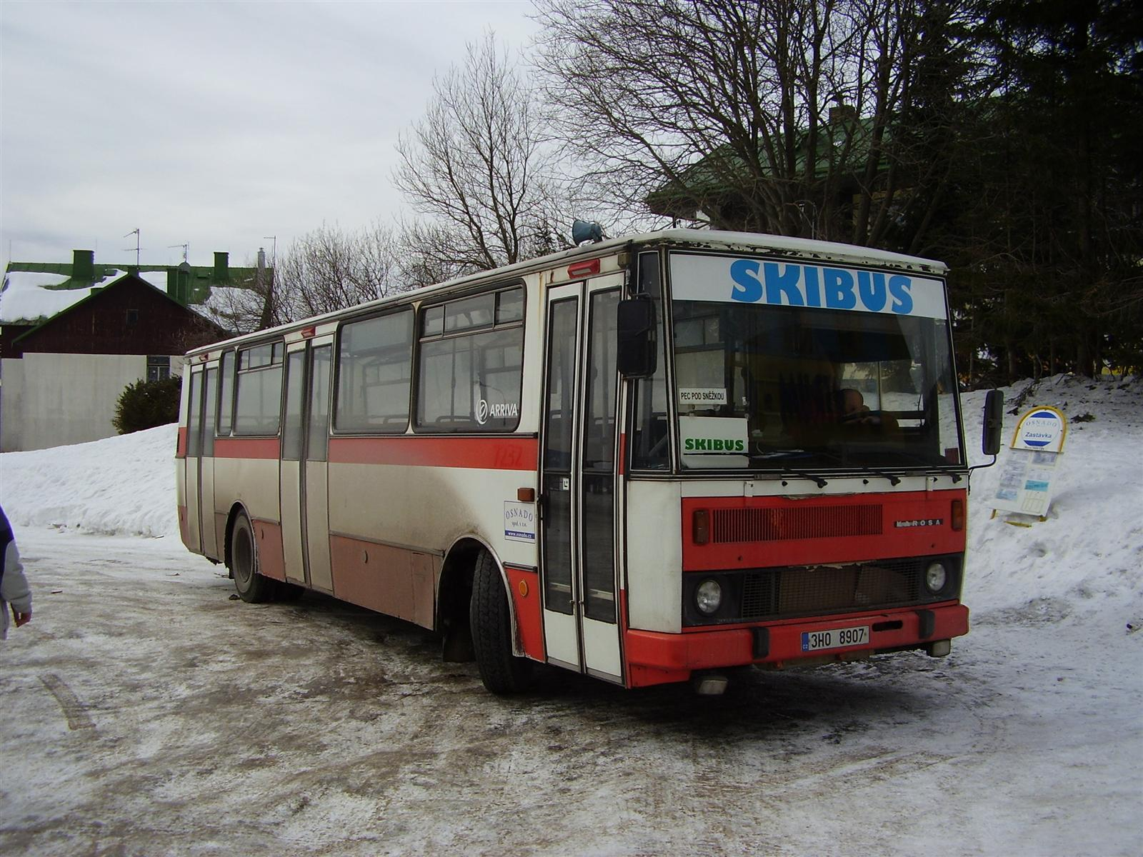 Skibus at Pomezní Boudy in Krkonoše